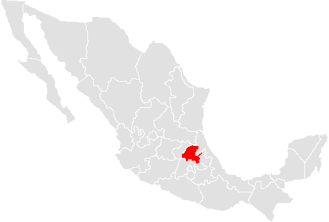 A map of the Mexican state of hidalgo made by me